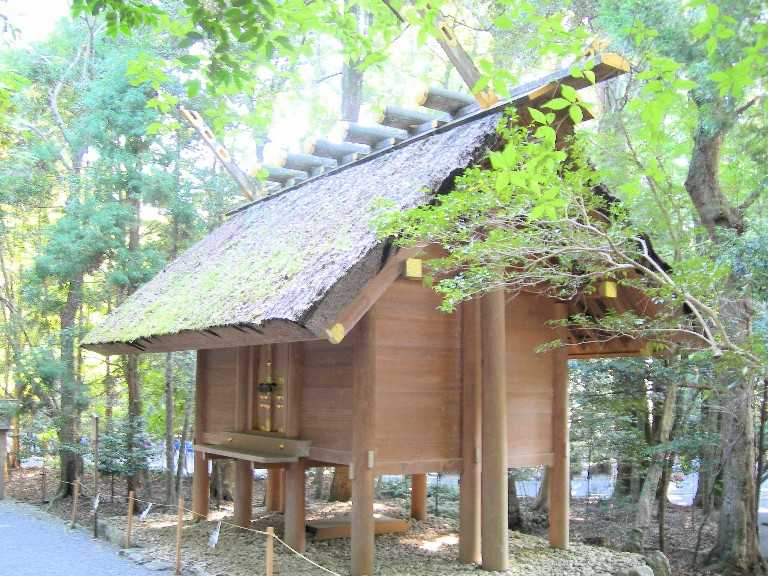 Mishine-no-mikura is a shokansha of Kotaijingu(Naiku) at Ise city. Mie prefecture, is a shokansha of Kotaijingu(Naiku) at Ise city. Mie prefecture, Japan.